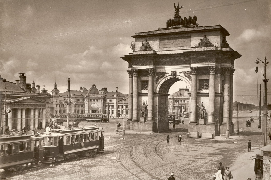 Square of Tverskaja Zastava and Triumphal Gate in Moscow